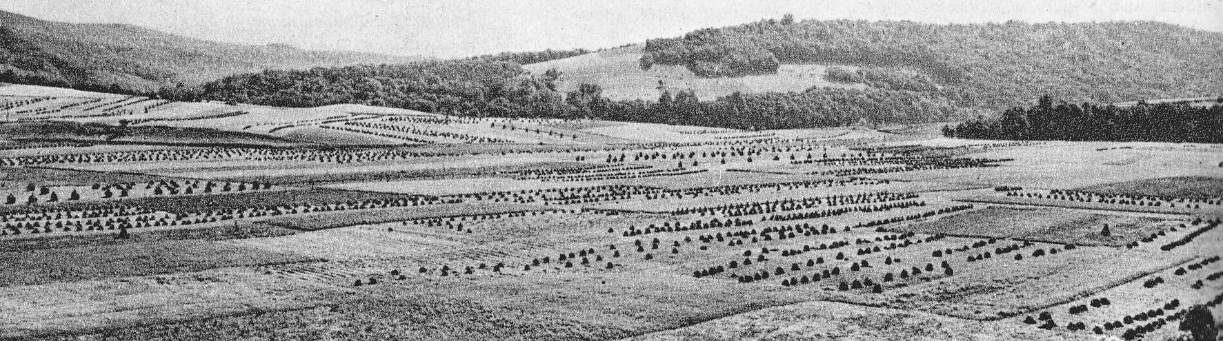 Fields of Myczkowce